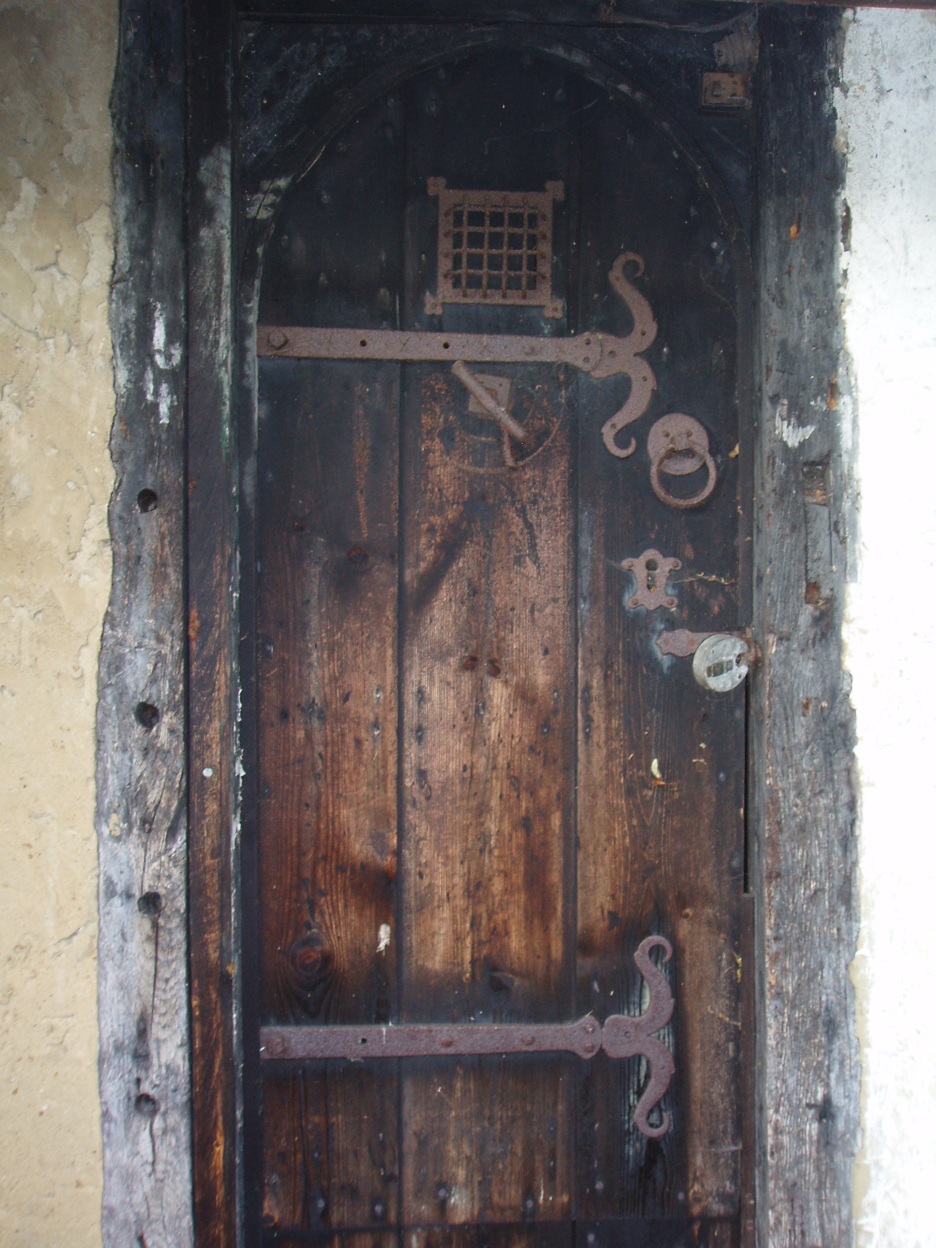 The Witches' Cottage, a hut in Bricket Wood, England, used by Gerald Gardner and his Bricket Wood Coven to perform rituals during the mid-20th century.